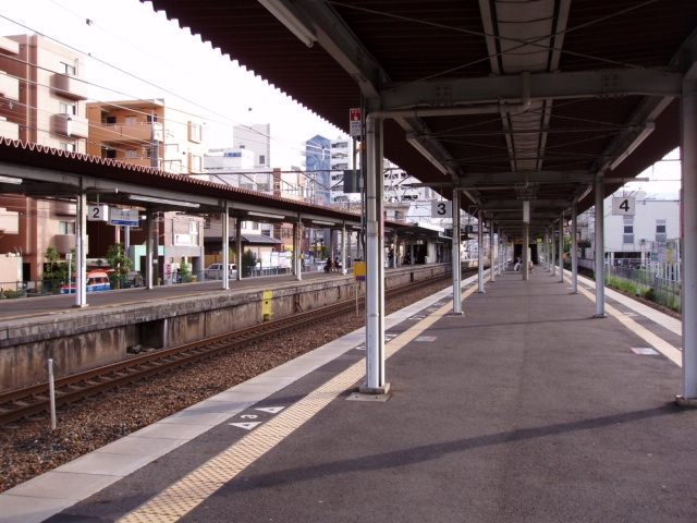 West Japan Railway Seta Station Platform 西日本旅客鉄道 瀬田駅 駅ホーム